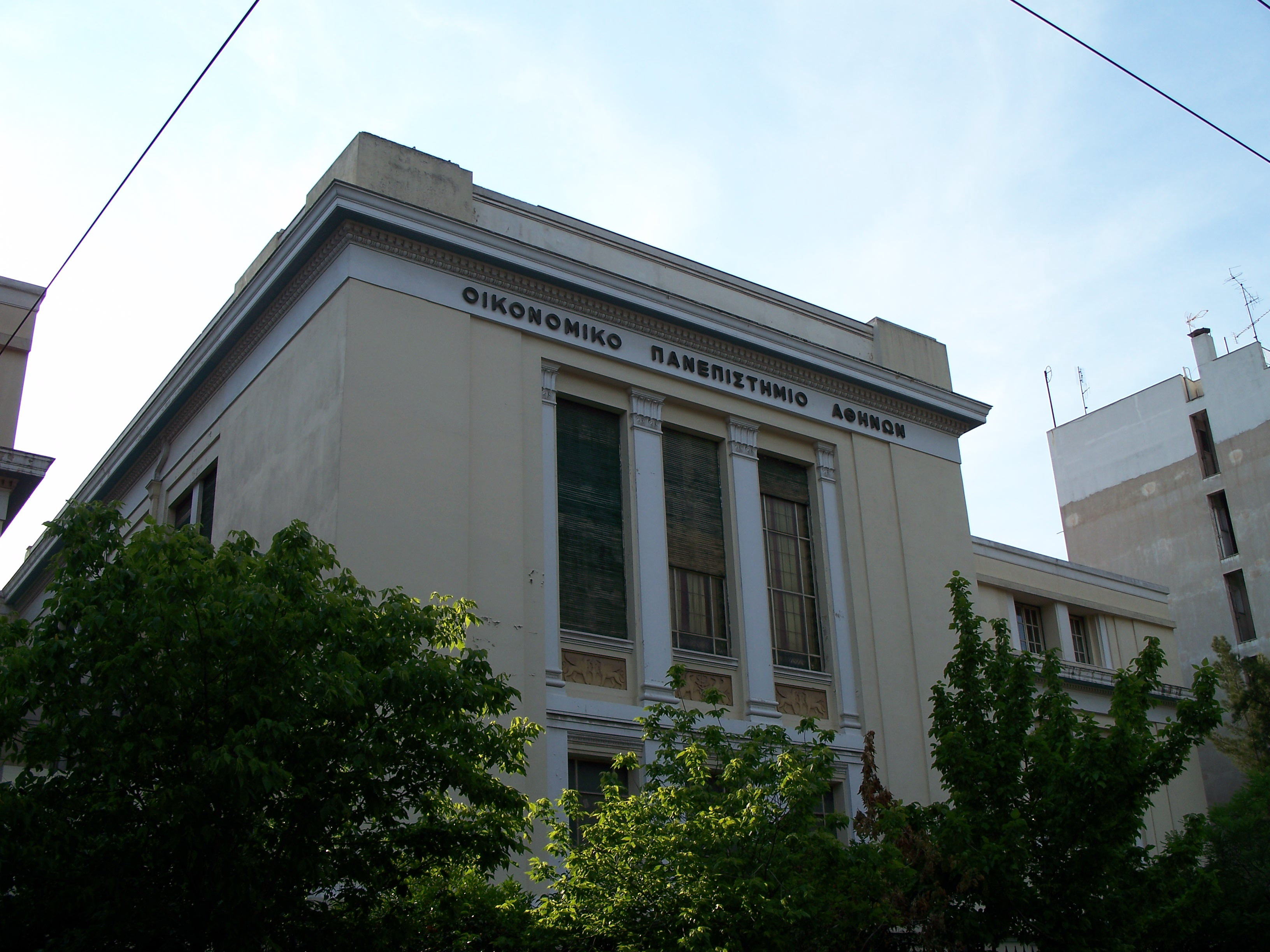 The building of the Economical University of Athens back view. Located in downtown Athens